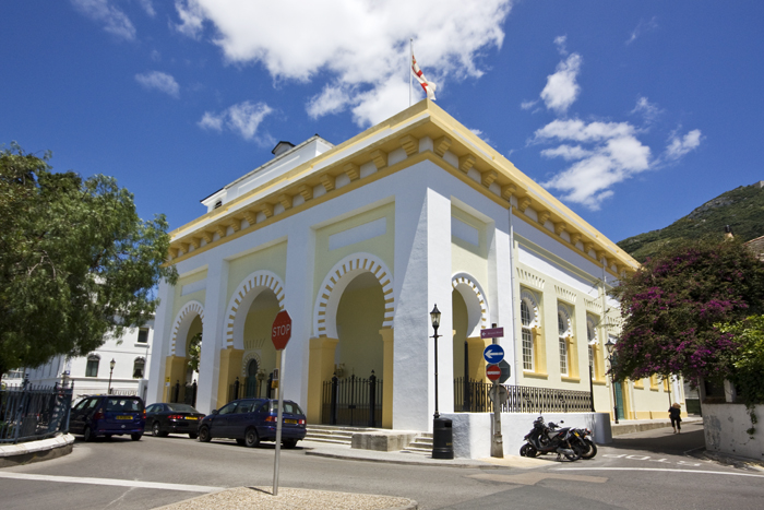 Cathedral of the Holy Trinity as viewed from Cathedral Square, Gibraltar.